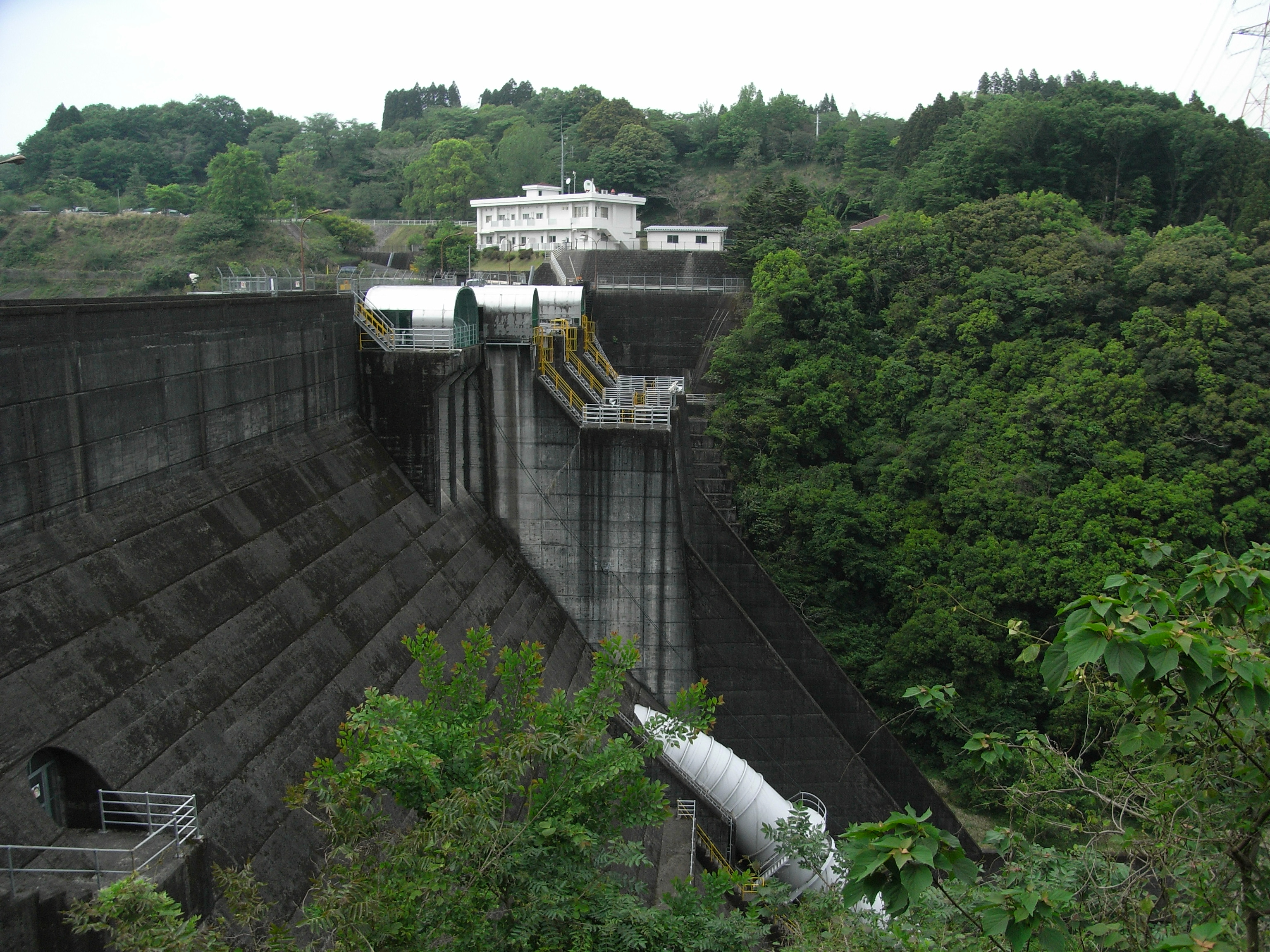 Iwase Dam(Iwasegawa river/Miyazaki Pref./Japan)